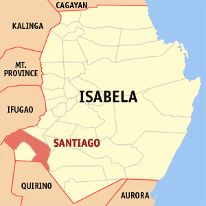 Map of Isabela showing the location of Santiago